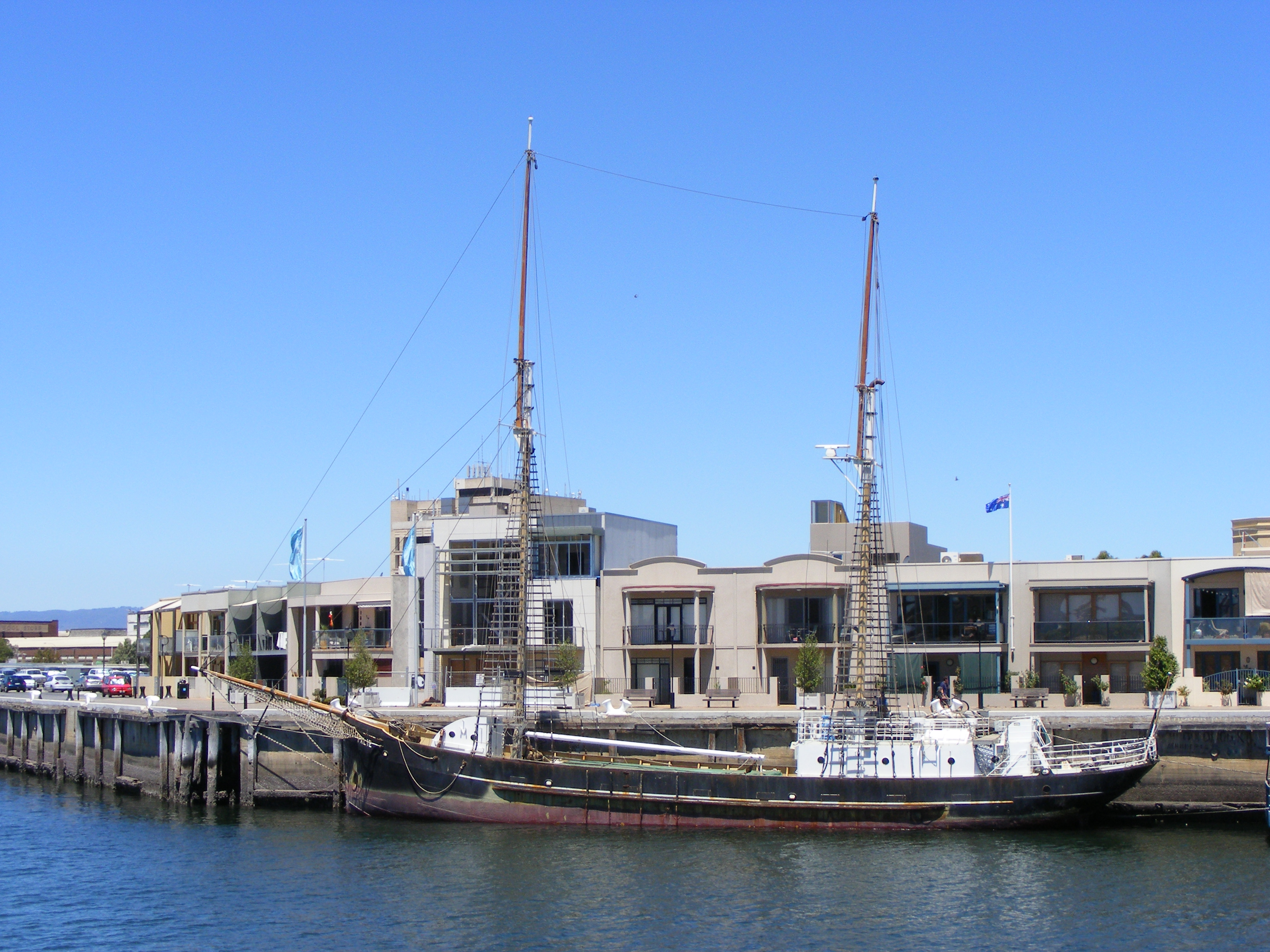 The Ketch "Falie" , last operating trading ketch in South Australia at Port River dock, Adelaide